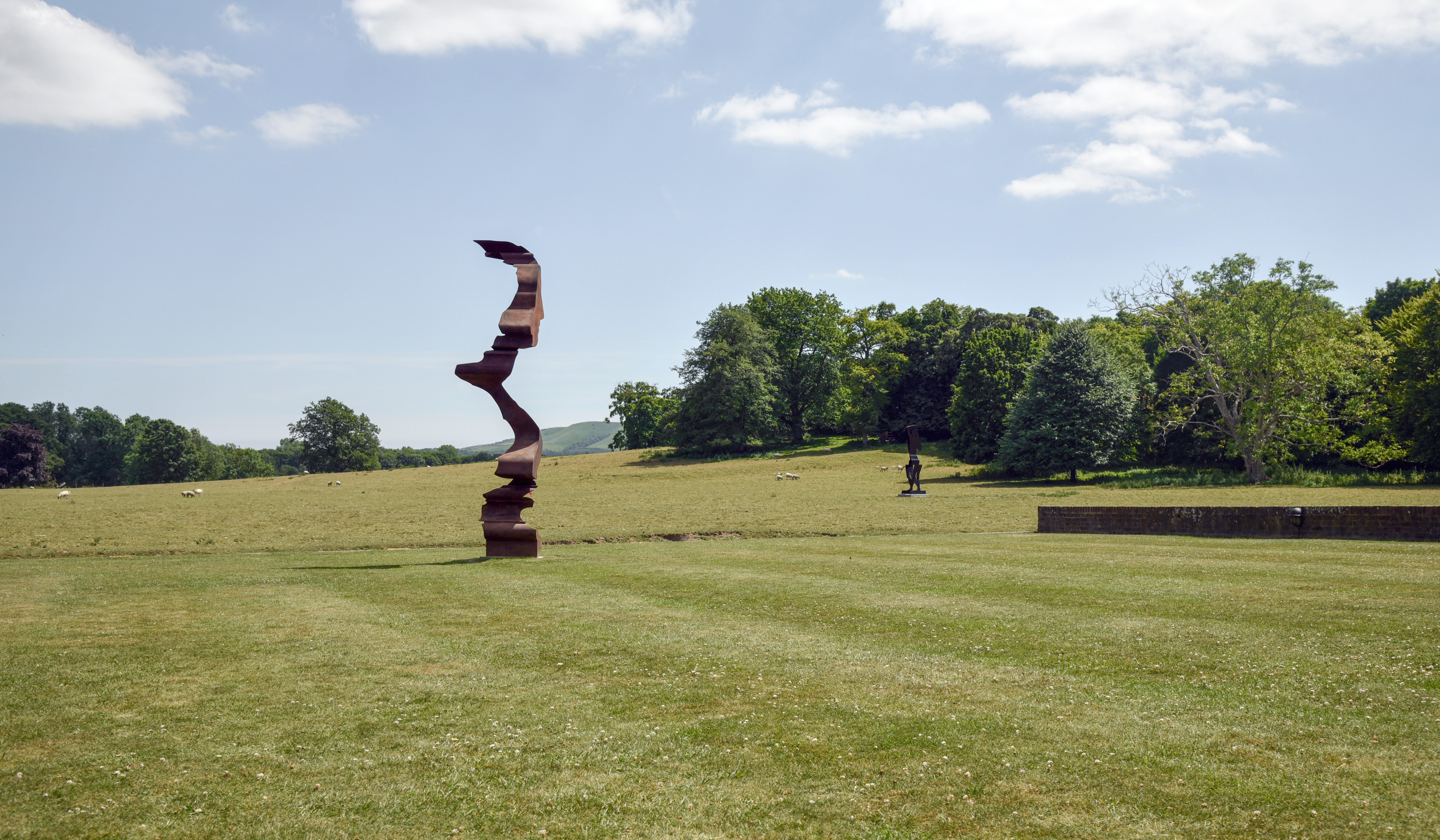 Image of a sculpture by Nick Hornby at Glyndebourne Opera House